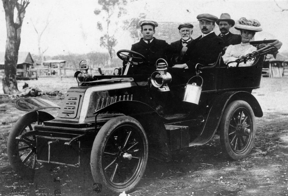 Thomas Trevethan's De Dion-Bouton car, ca. 1906. A 1 cylinder De Dion-Bouton, 8 h.p. Model K "Populaire". This model was built in 1902, only